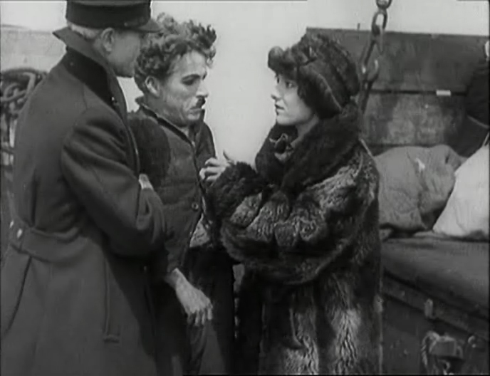 Scene from the film The Gold Rush(1925) with Charlie Chaplin and Georgia Hale.